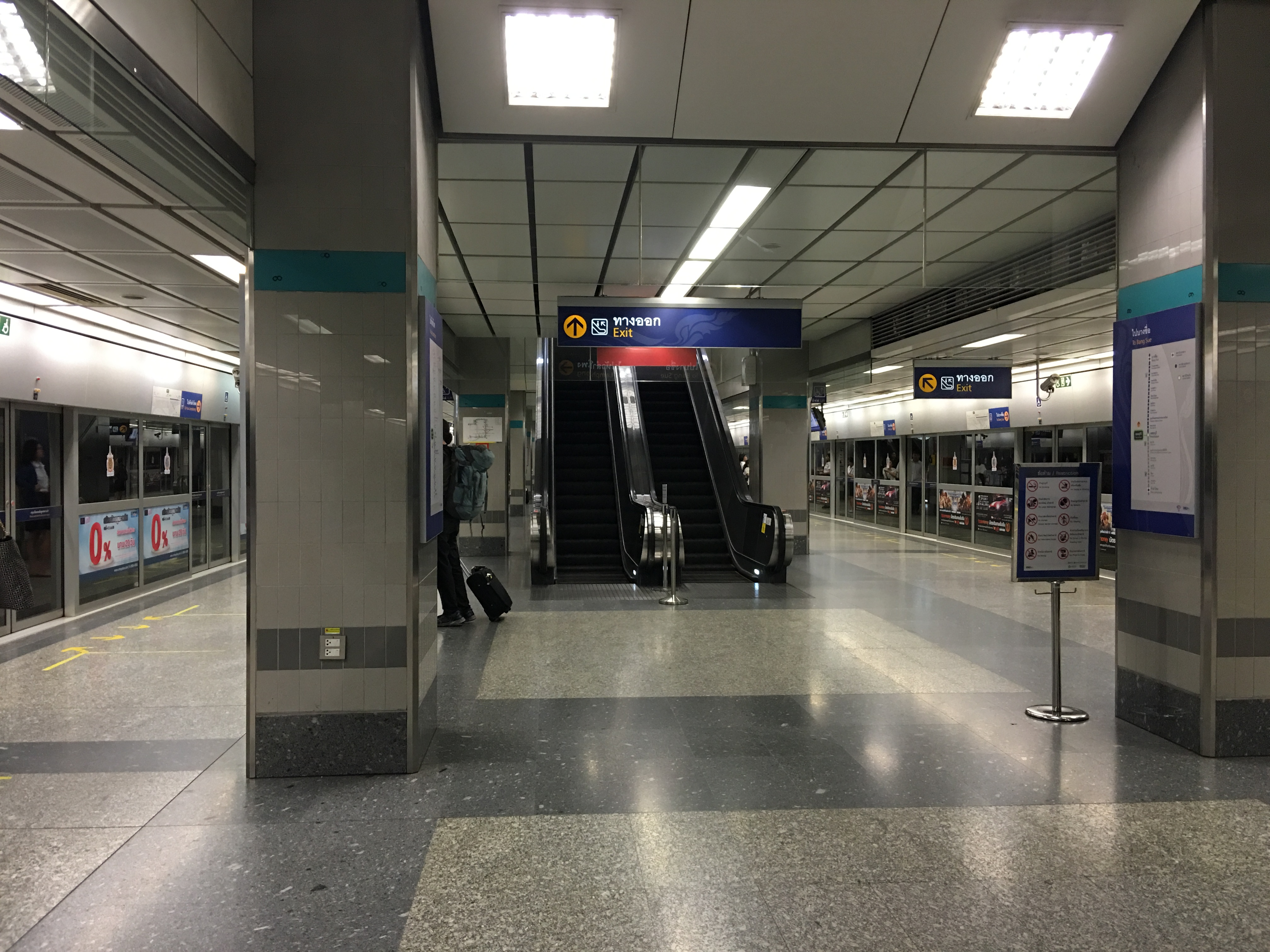 The platform level of Phetchaburi MRT Station